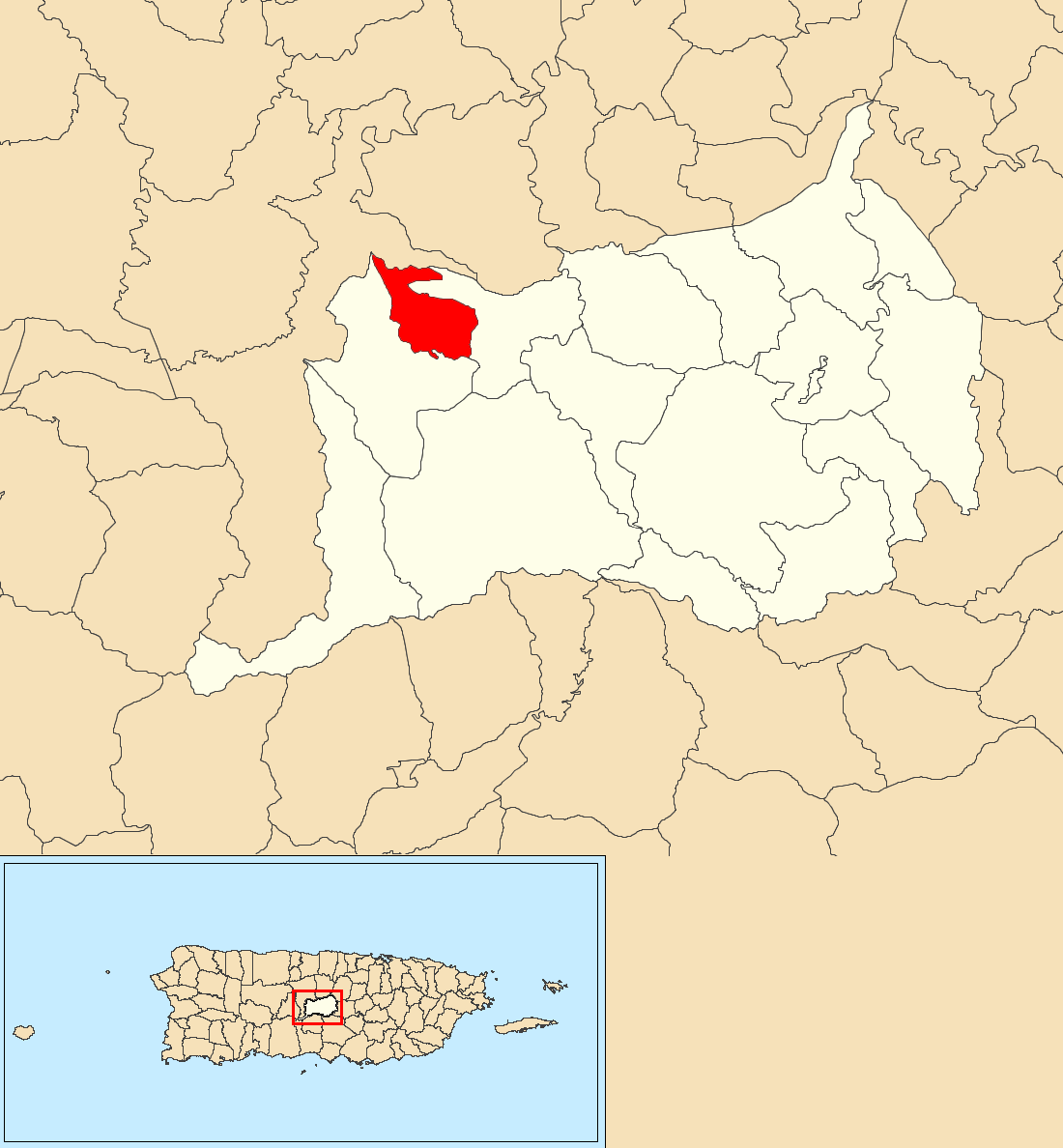 Collores, Orocovis, Puerto Rico locator map